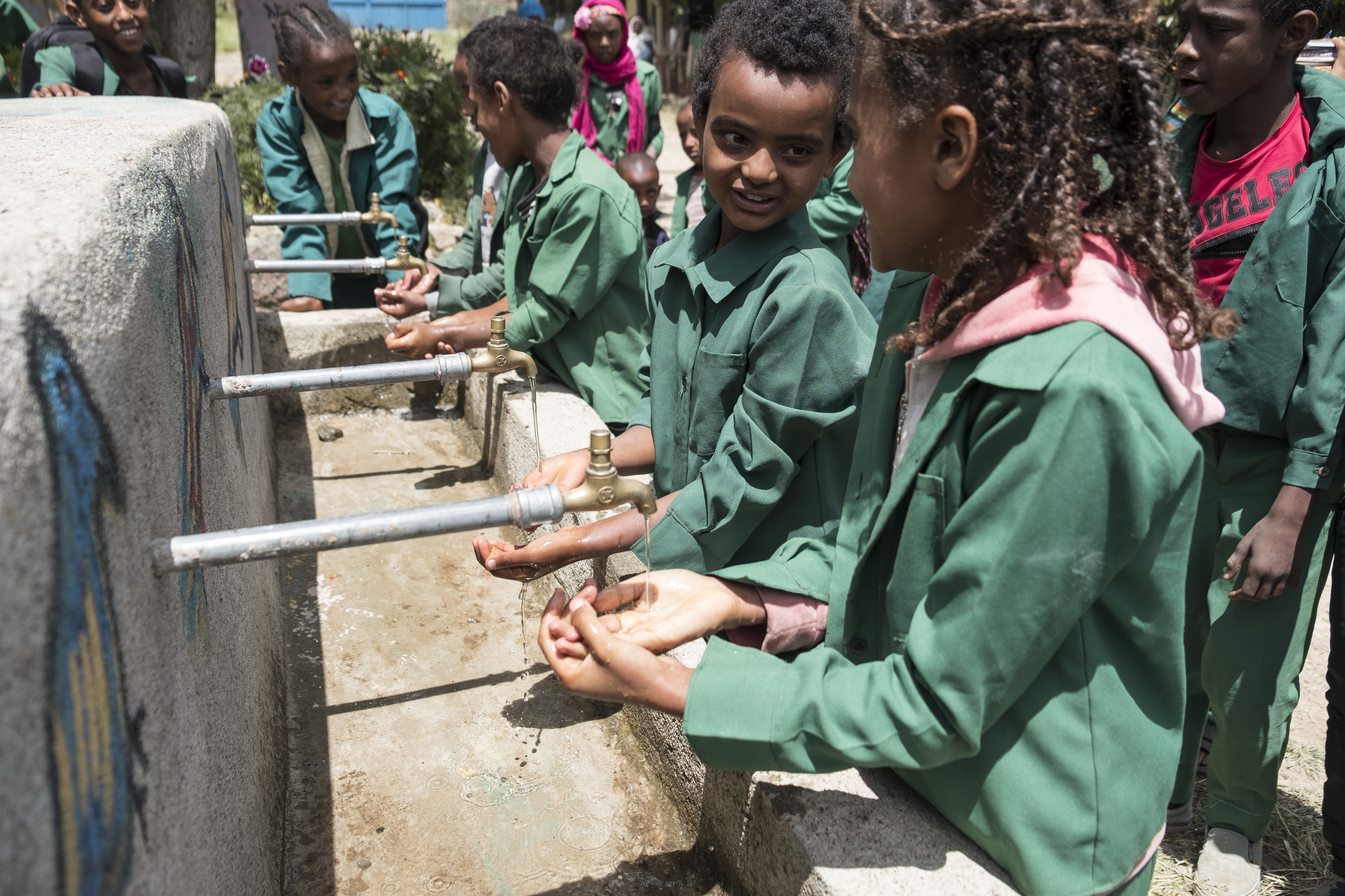 Children in a primary school in Debre Berhan, Ethiopia. The 1000 poorest children in the town are supported by the foundation Menschen für Menschen Switzerland. Beside other things they get schooling materials and life skill training. Their housing is improved and their mothers organize in selfhelp groups where they get access to microcredits. Part of the project is improving the schooling situation and hygiene in the environment. The water point in the primary schools are repaired by the project.